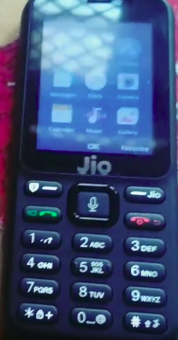 Front of the Jio Phone